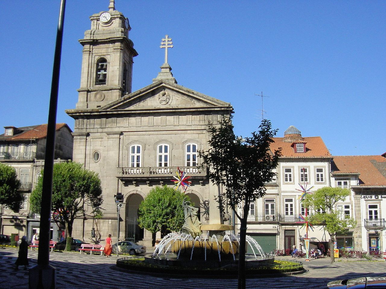 Saint Peter`s Church in Toural Square,Guimarães,Portugal.